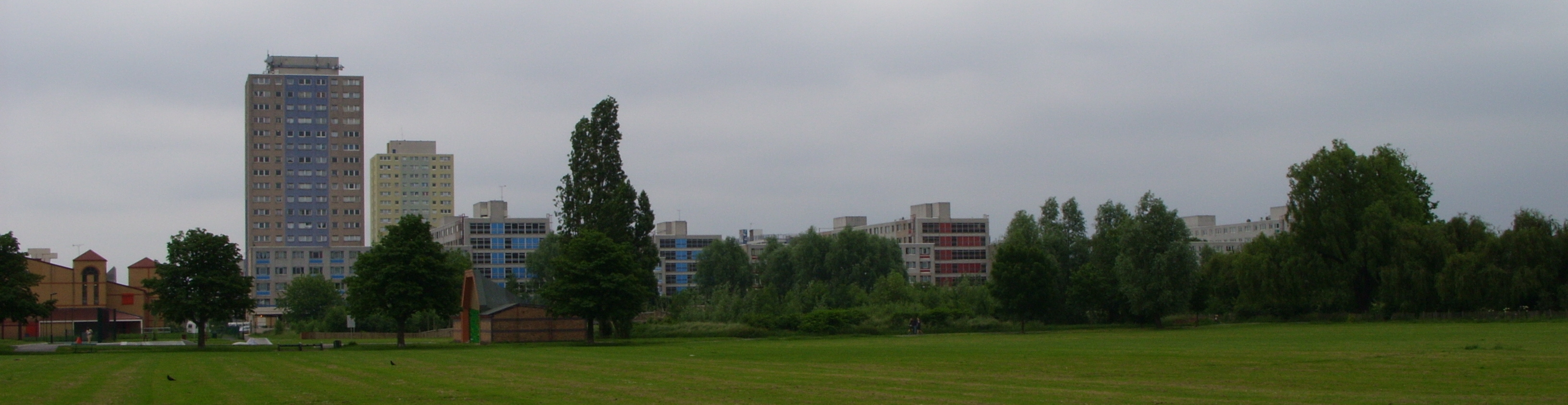 Panorama of Broadwater Farm, London N17